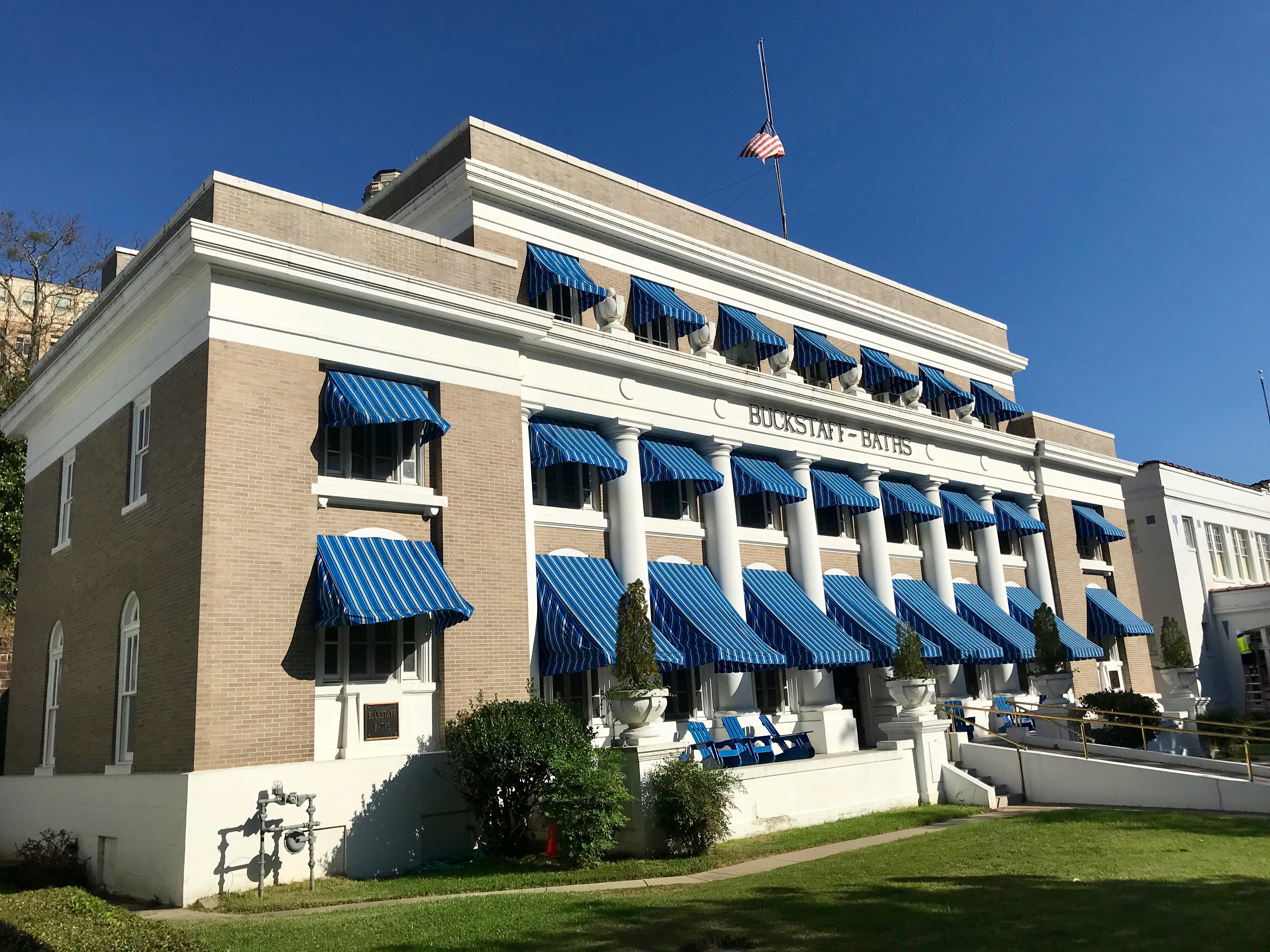 From its opening, the handsome Buckstaff Bathhouse aggressively promoted its image. To gain customers, the owners mounted a huge sign on the roof to attract people from the large hotels a block away. Other bathhouses lost character as they modernized, but the Buckstaff kept its historic appearance and emphasized its reputation for service. Although many of its competitors closed between 1962 and 1985, the Buckstaff continues to operate as a bathhouse. On Bathhouse Row it is the sole operating survivor from the Golden Age of Bathing. Bathhouse Row @ Hot Springs National Park, Arkansas